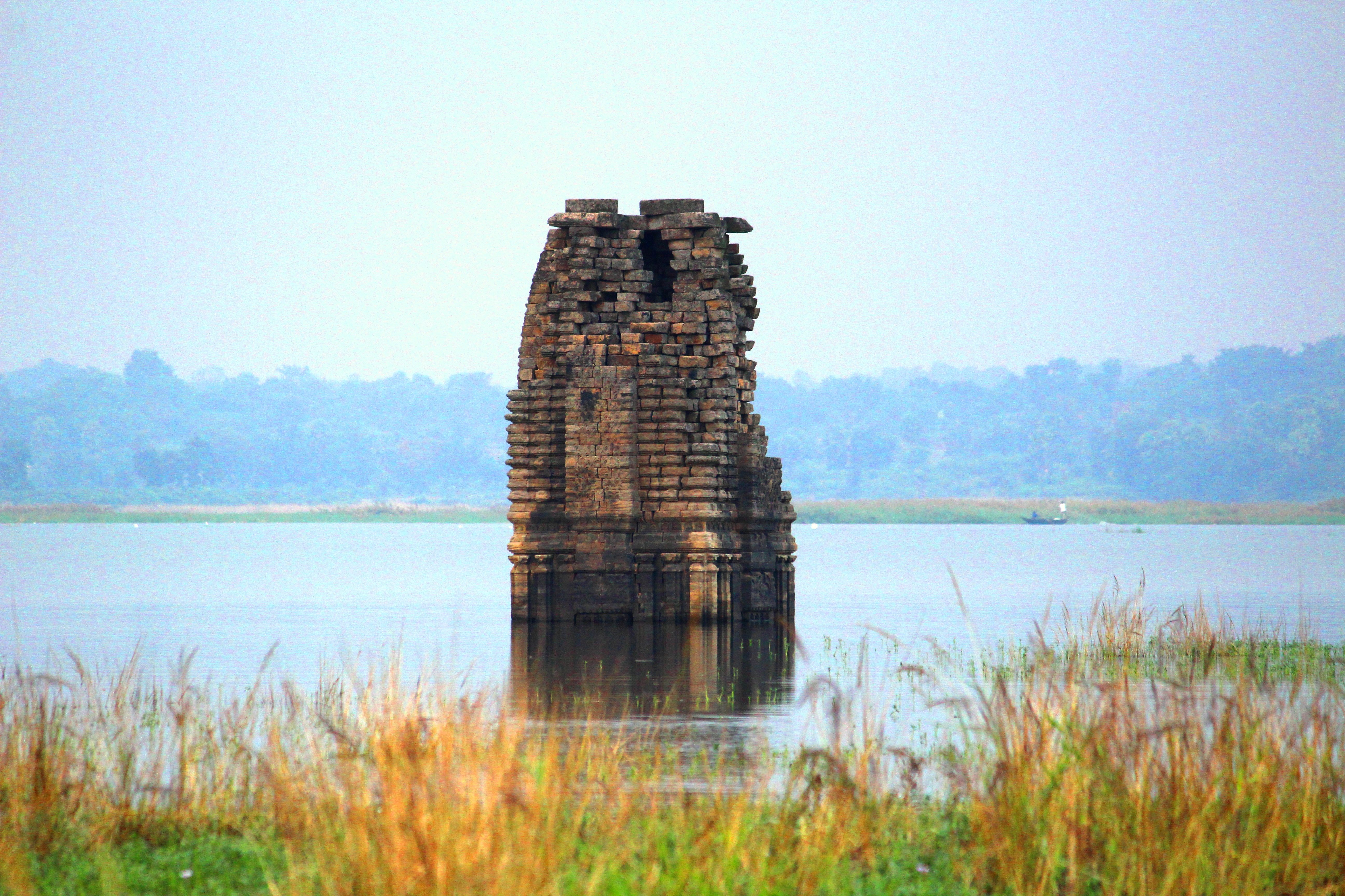 Telkupi, situated on the southern banks of the Damodar near Panchet was famous once as Tailakampa, the ancient capital and riverine port of Shikharbhum and an important Jain centre of commerce and religion. First described by Joseph.D. Beglar in his Report of a tour through the Bengal Provinces...in 1872-73 and later by Dr Debala Mitra and others, the area contained more than 20 temples and mounds. In the mid 1950s, the area was inundated following the construction of the Panchet Dam and what we see today are a couple of deuls half submerged in the vast Panchet reservoir. Locals say that another peeps up during low water levels. The temples have been dated to 10th-12th century AD. A number of Jain artefacts have been recovered from the area.